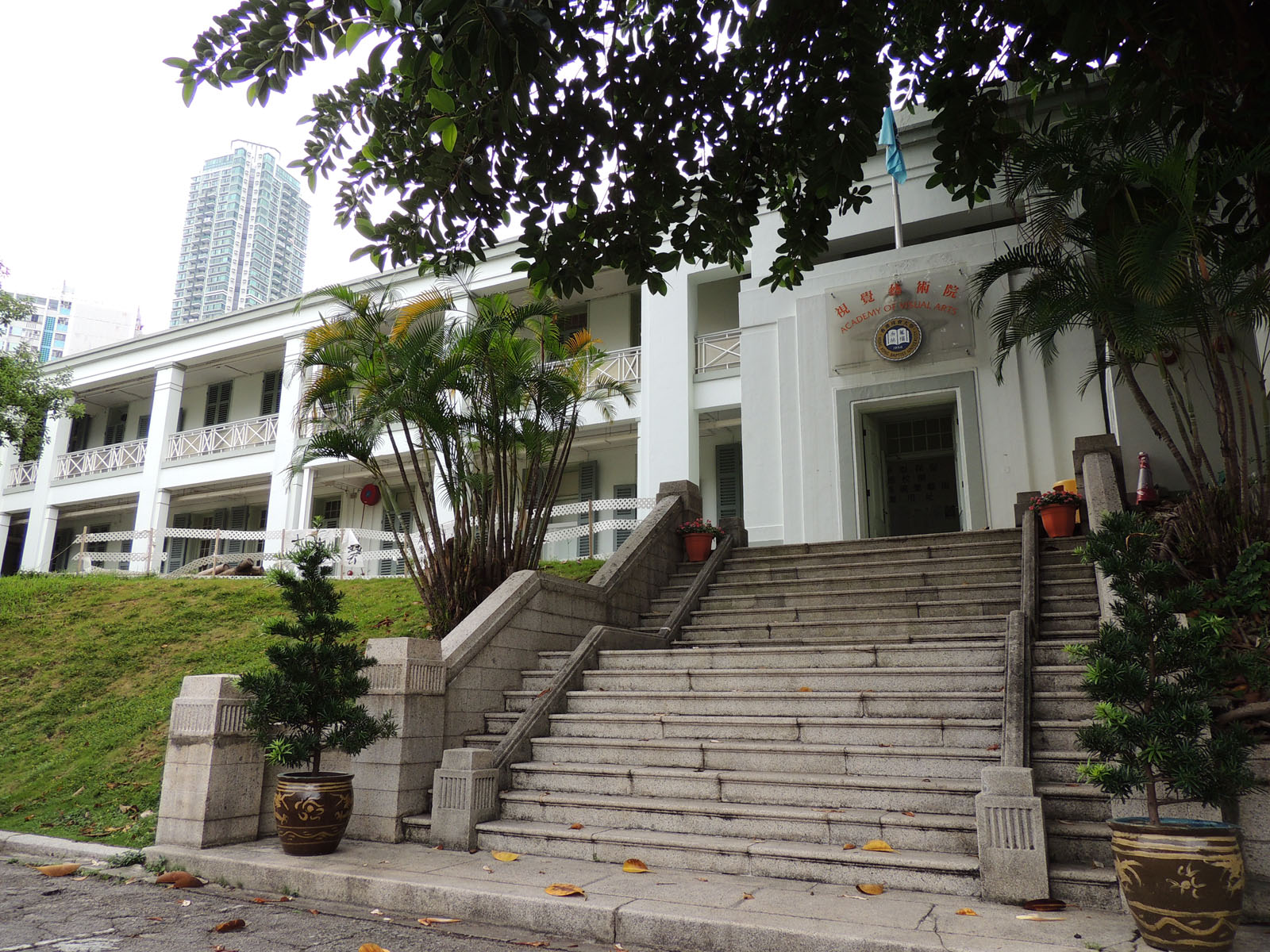 Officers' Quarters Compound RAF Officers Mess, Ex-Royal Air Force Station (Kai Tak)